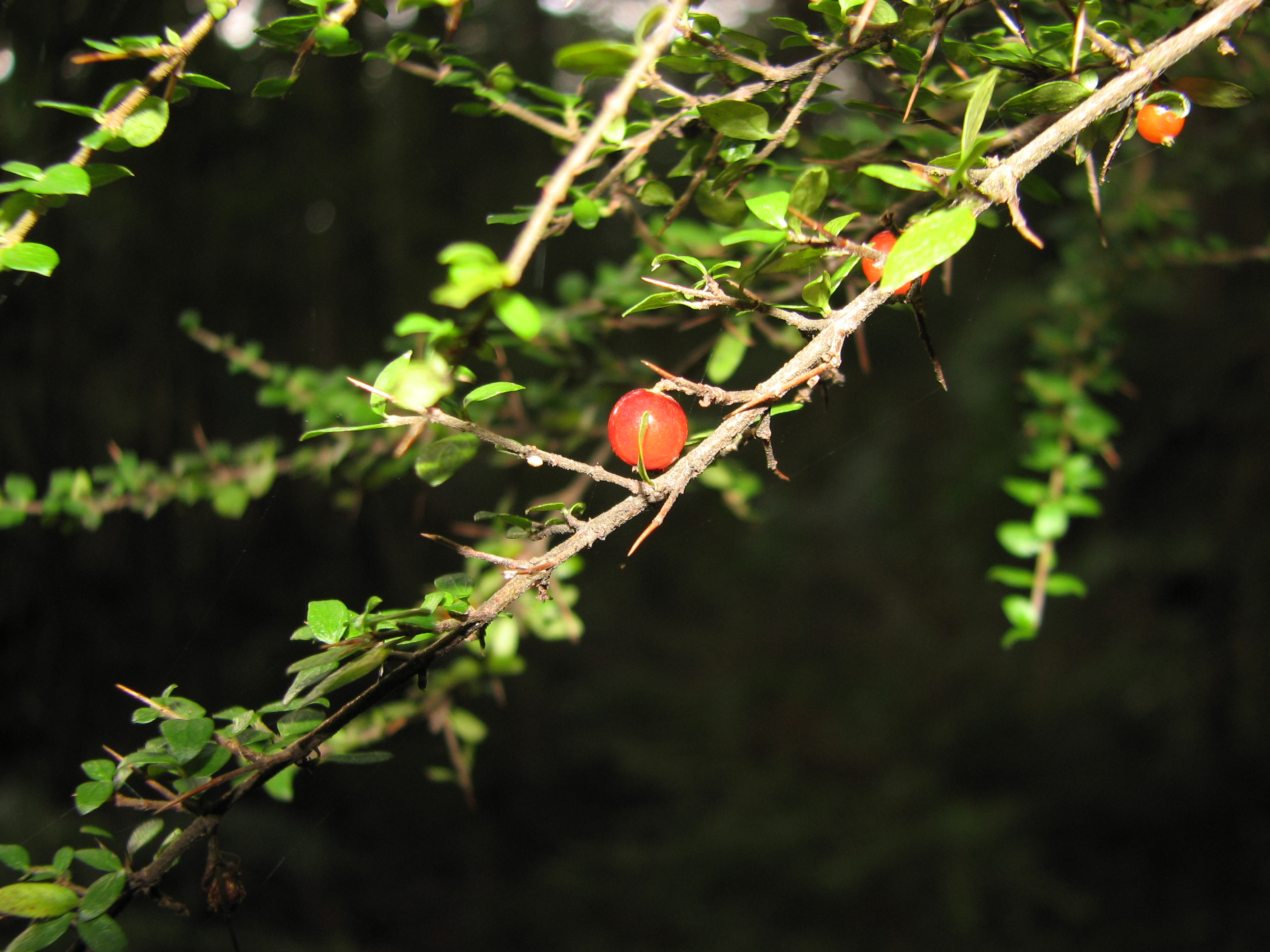 Coprosma quadrifida, Mount Toolebewong, Victoria, Australia